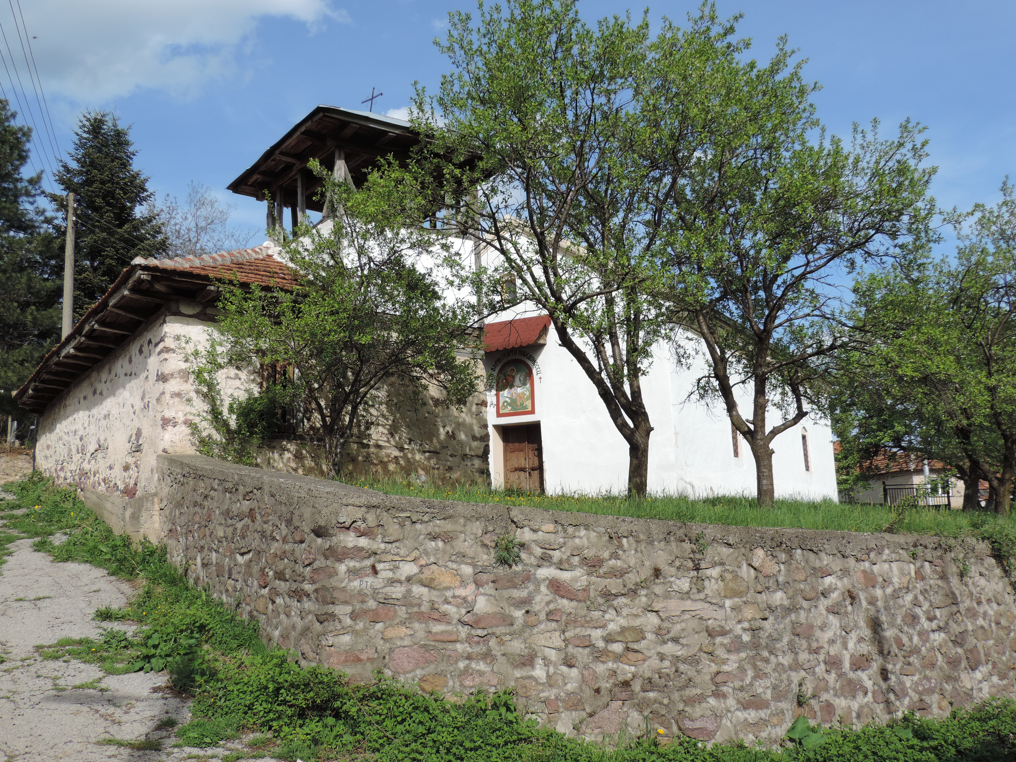 Church "Saint George" in village Martinovo, Montana Province, Bulgaria